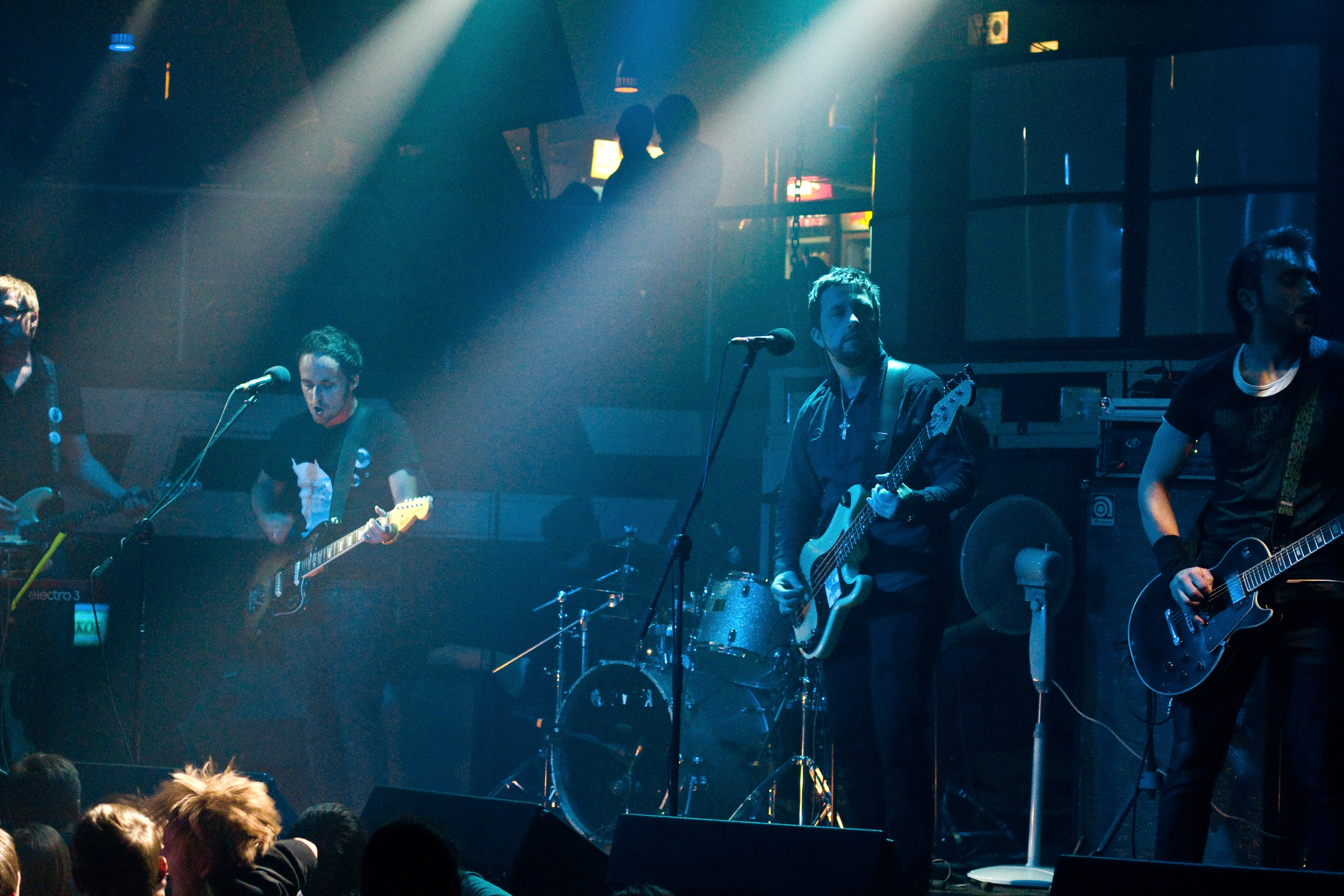 Myslovitz in Minsk, Belarus. December, 3, 2010. Беларуская (тарашкевіца): Канцэрт гурта Myslovitz у Менску, Беларусь. 3 сьнежня 2010 г.